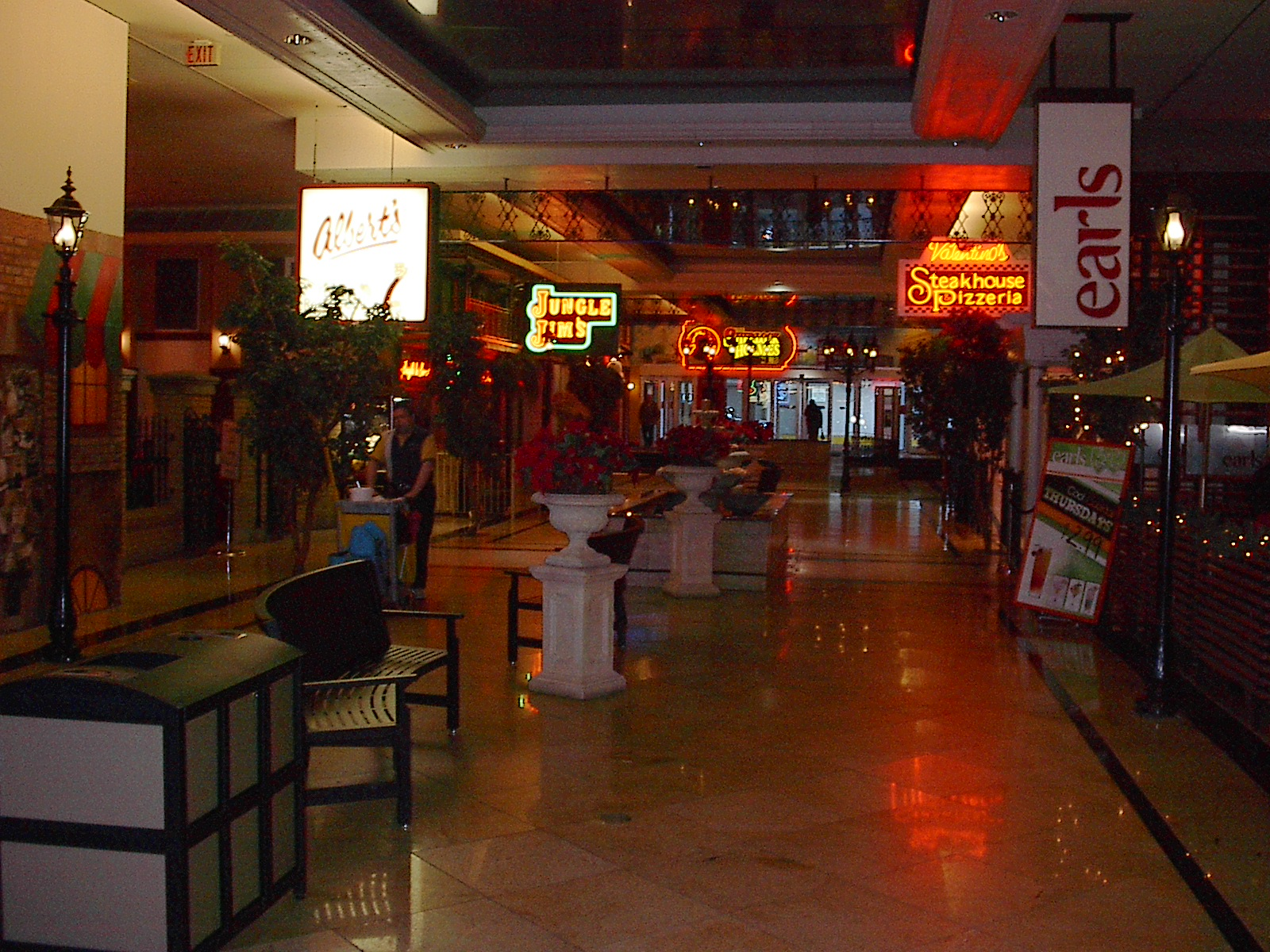 Author: Matteso Snapped the photo myself while at the mall